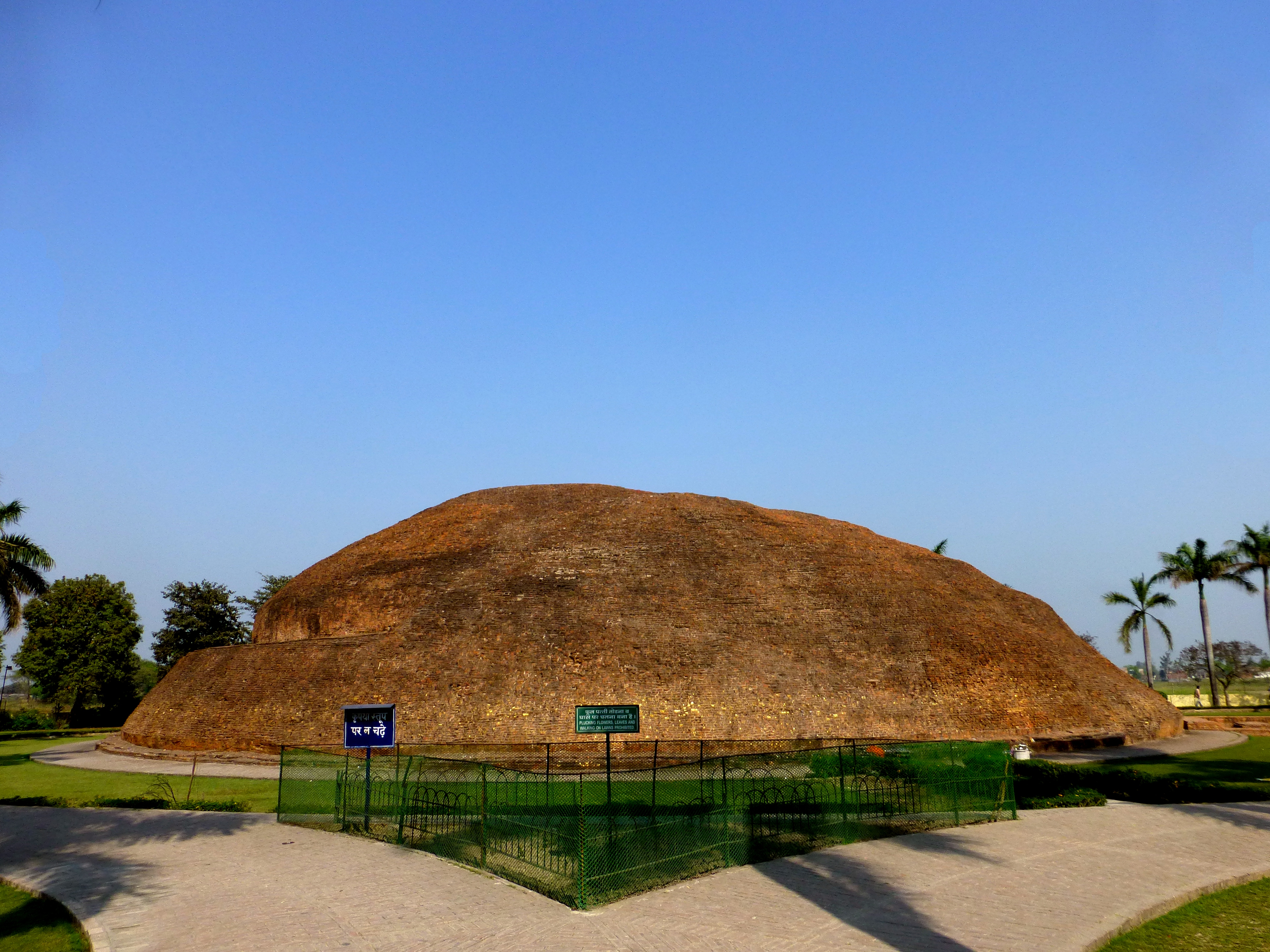 69 Stupa, Ramabhar. Photograph of the Ramabhar Stupa at Kushinagara in Uttar Pradesh taken by Anandajoti.